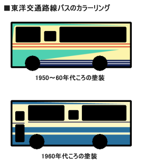 painting of route bus vehicle of Toyo-kotsu